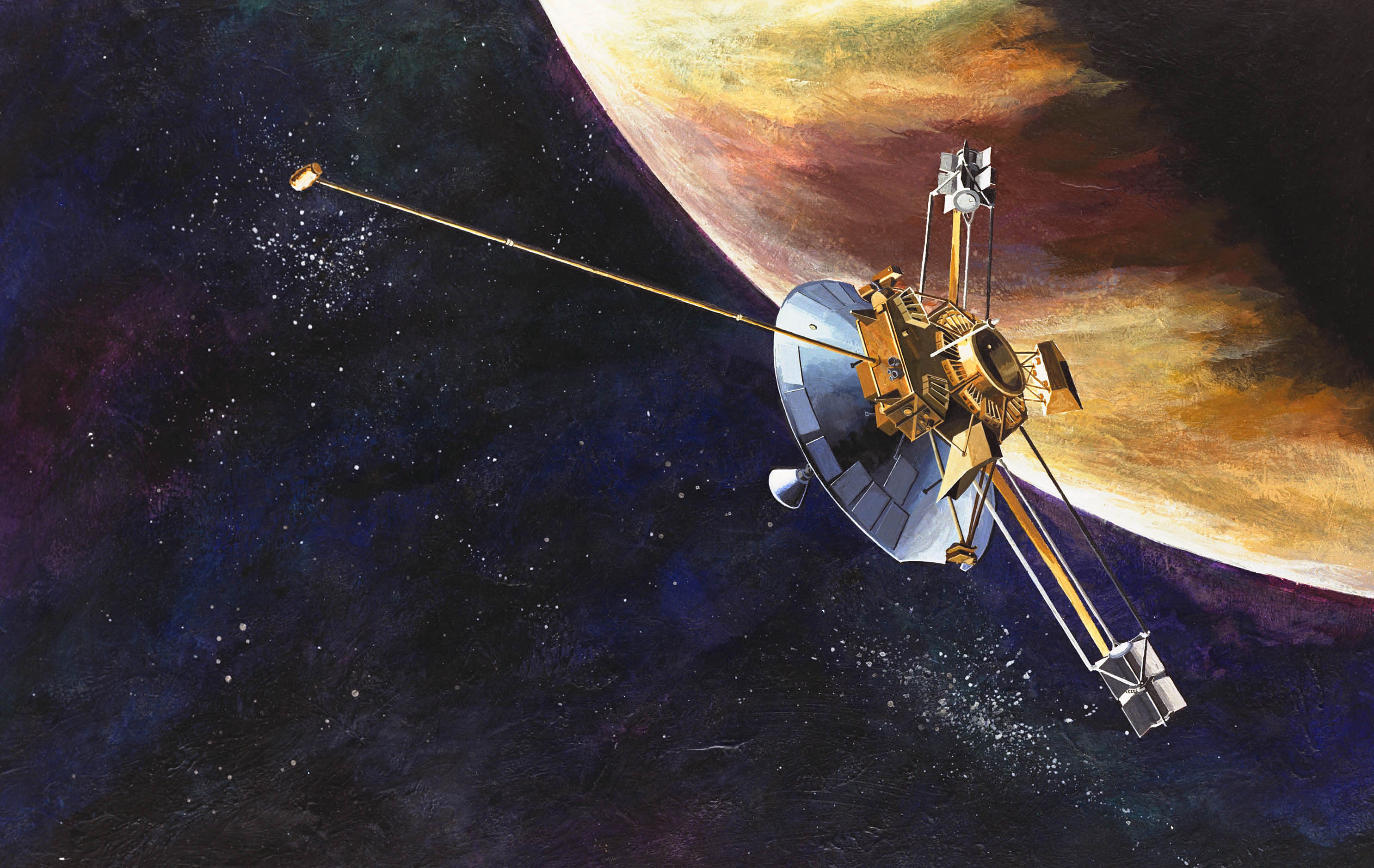 On June 13, 1983, Pioneer 10 passed beyond Neptune’s orbit, becoming first man-made object to leave the Solar System.